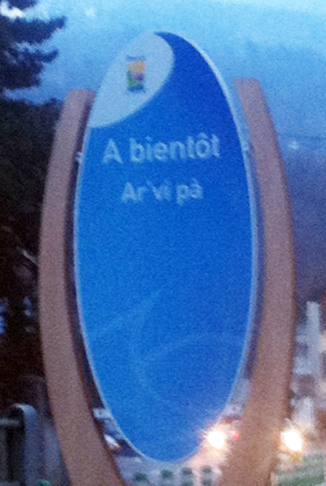 French and Arpitan language "Goodbye" sign in Sallanches (74). "A revi pâ" means: Goodbye, isn't it?